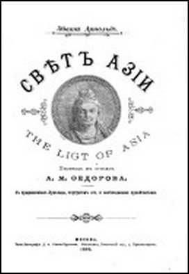 Sir Edwin Arnold's Book The Light of Asia. Title page of the Russian edition.